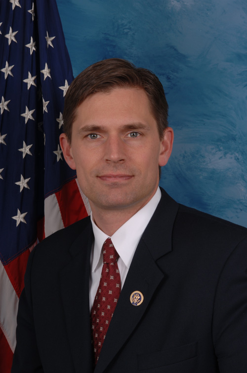 Martin Heinrich, member of the United States House of Representatives.